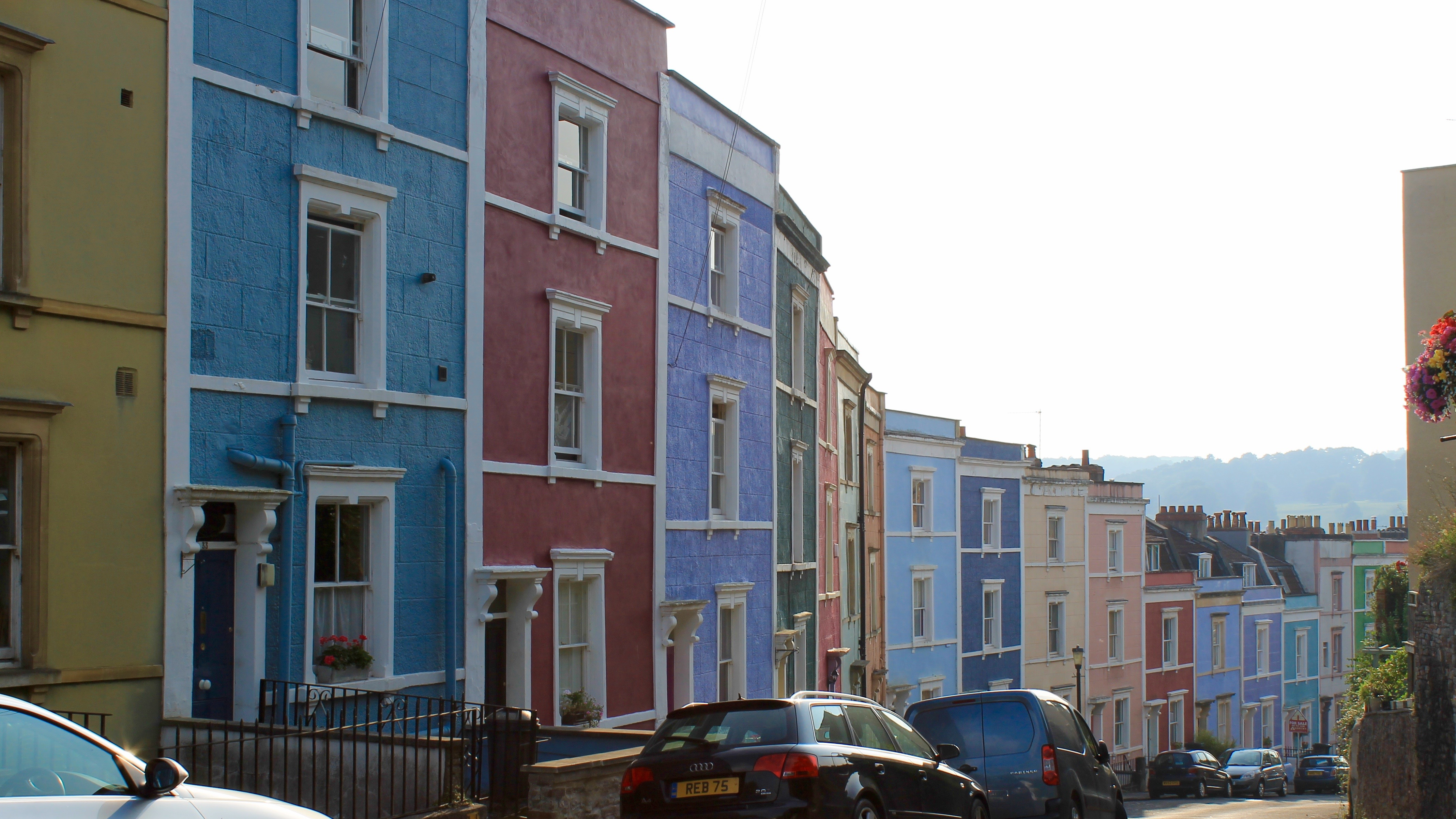 Photo of Ambrose Road in Bristol in 2013.